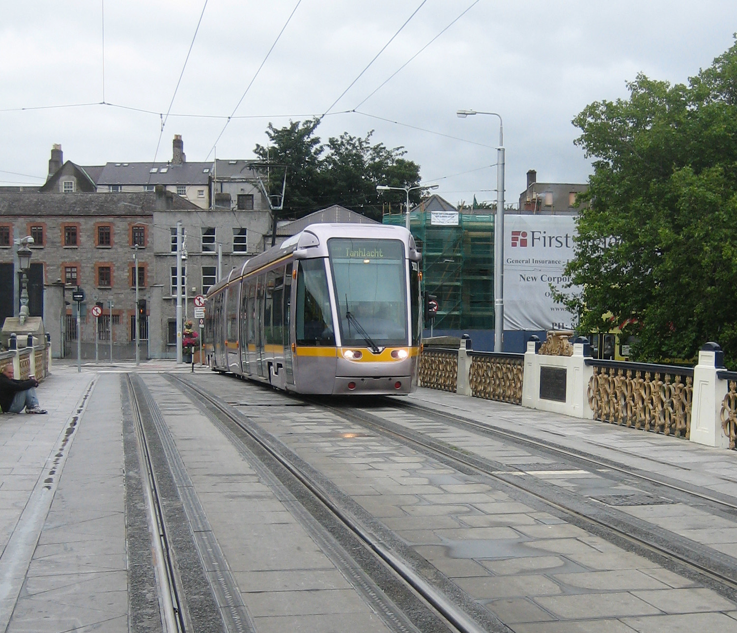 Luas tram crossing the Seán Heuston Bridge while approaching Heuston station in central Dublin.